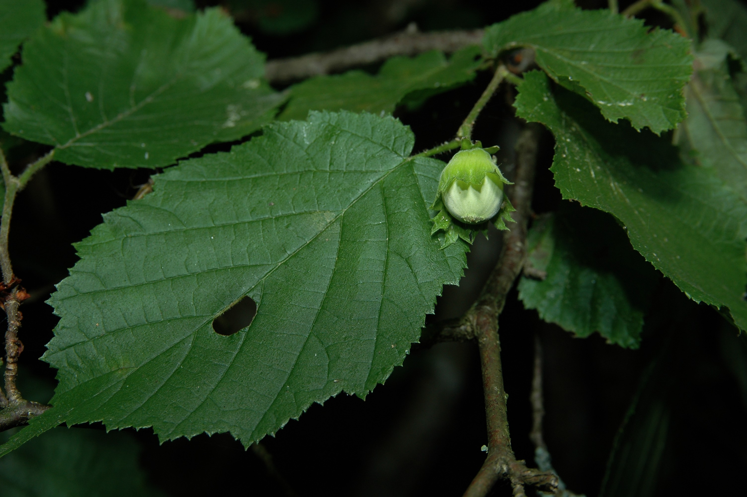 Corylus avellana